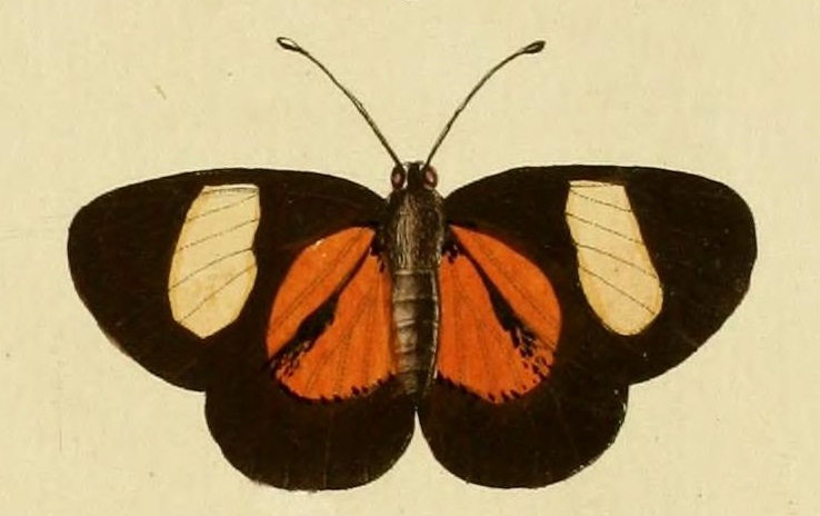 Plate CCLXX C: "(Papilio) Epitus" ( = Setabis epitus (Cramer, [1780]), iconotype?) , see Funet. or Orimba epitus (Cramer, [1780]), iconotype?, see The Global Lepidoptera Names Index, NHM. Photos at Neotropical Butterflies .